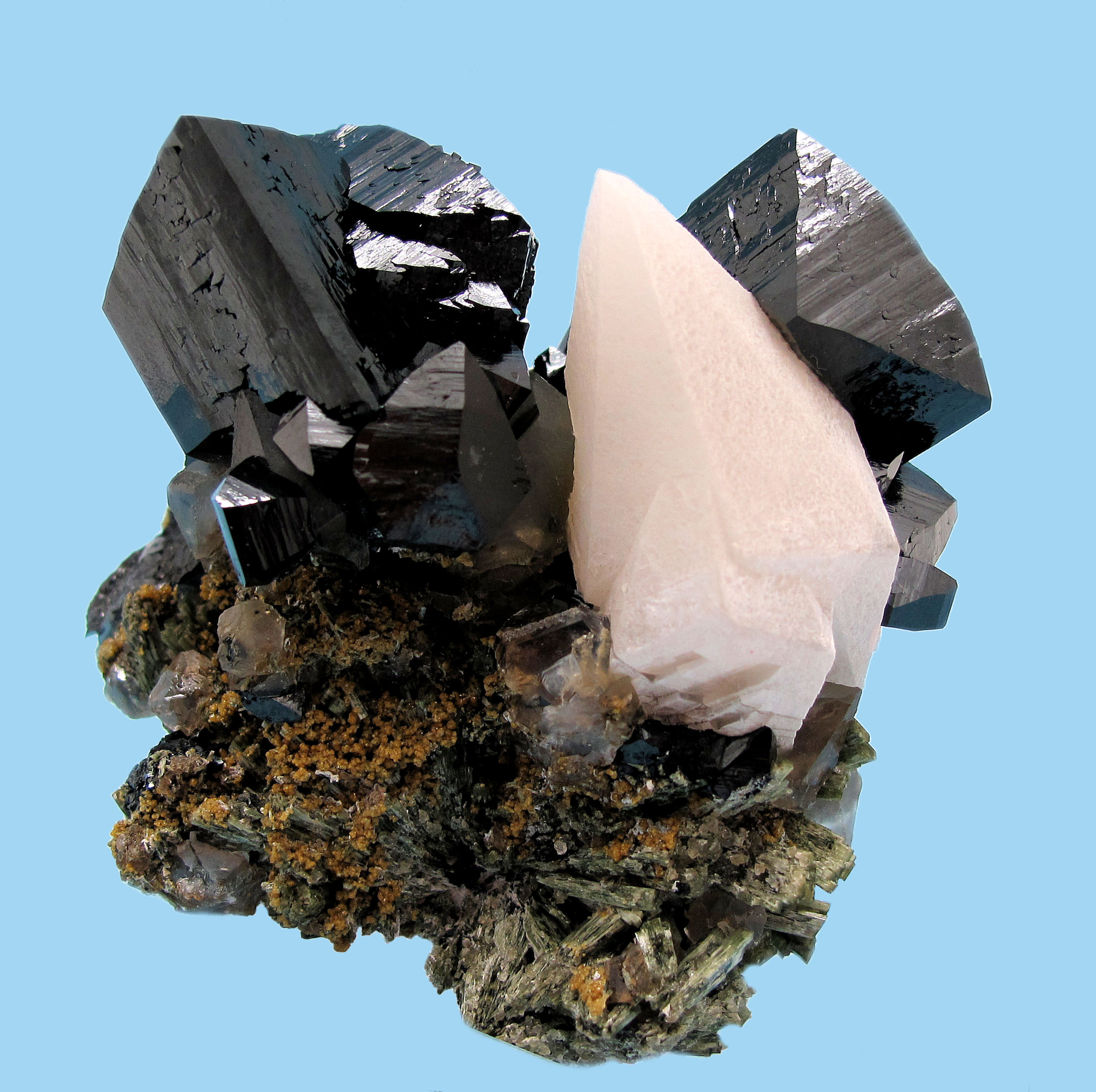 Group of very lustrous ilvaite crystals with a colorless translucent calcite scalenohedron perched on them, on a matrix made up of actinolite crystals with minor quartz and andradite. Undamaged. Overall size: 64 mm x 61 mm. Calcite crystal: 37 mm tall. Major ilvaite crystal: 23 mm wide. Weight: 128 g.